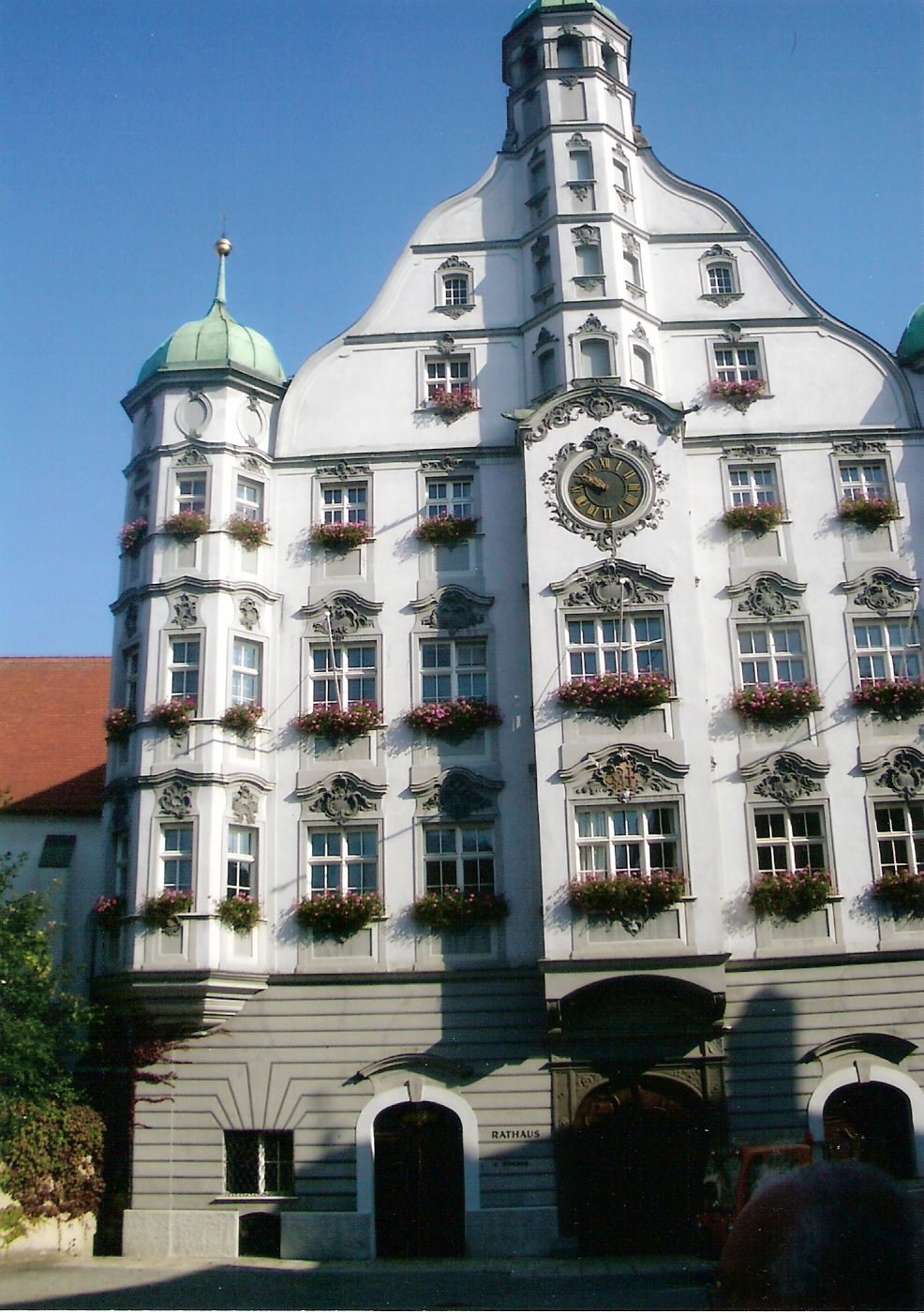 Memmingen, Germany Town hall taken in 2005